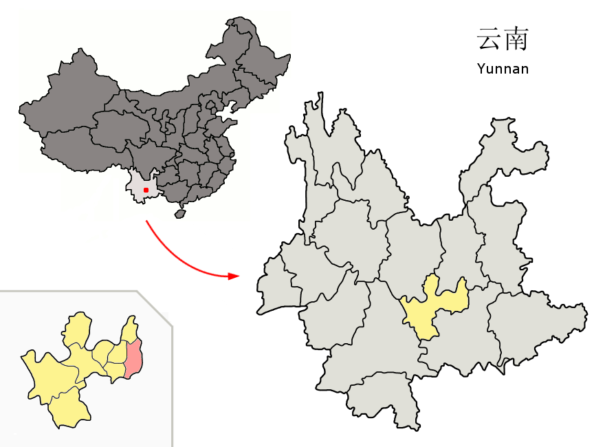 Location of Huaning County (pink) and Yuxi Prefecture (yellow) within Yunnan province of China Map drawn in september 2007 using various sources, mainly : Yunnan province administrative regions GIS data: 1:1M, County level, 1990 Yunnan Counties map from